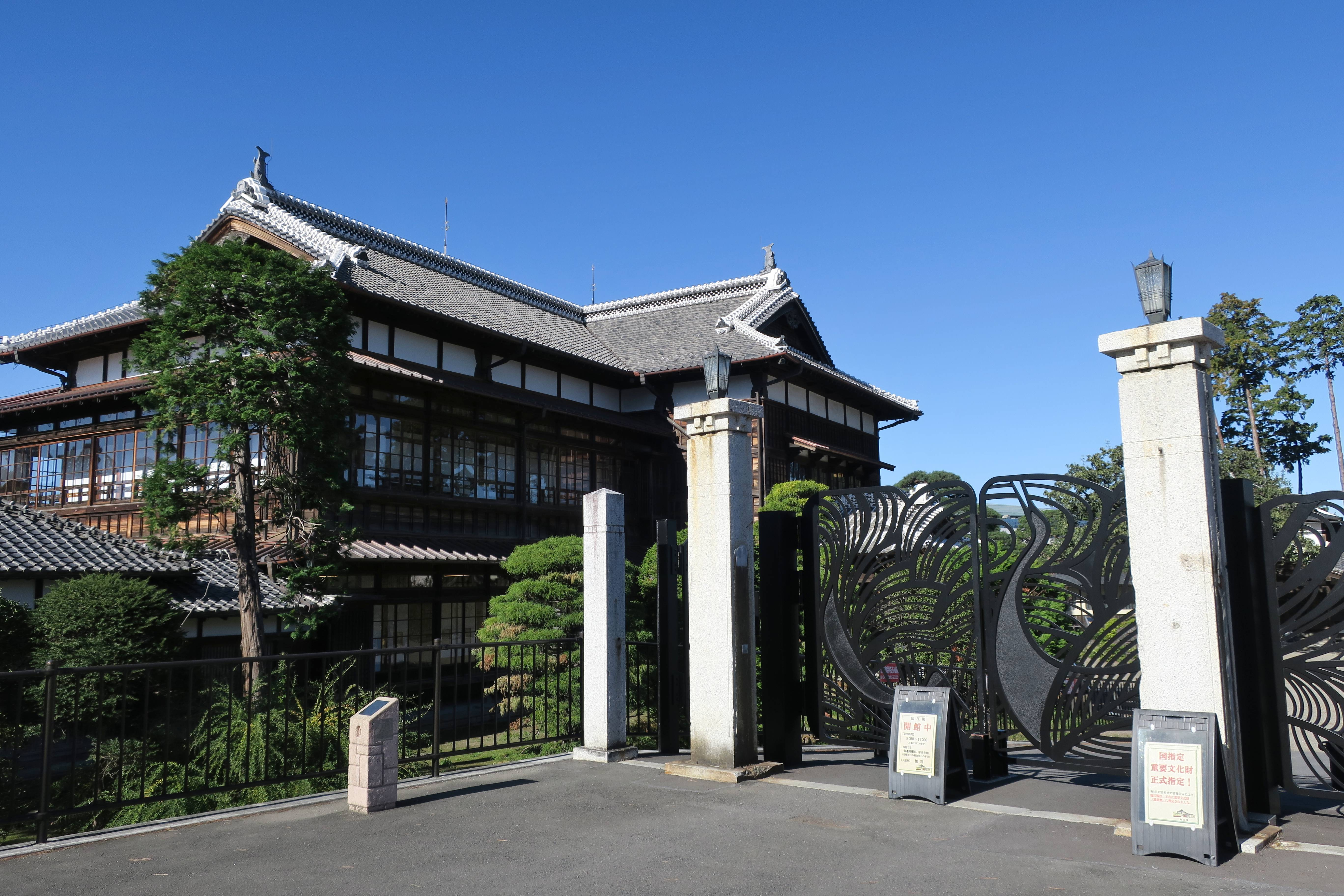 Rinkōkaku (Maebashi, Gunma).